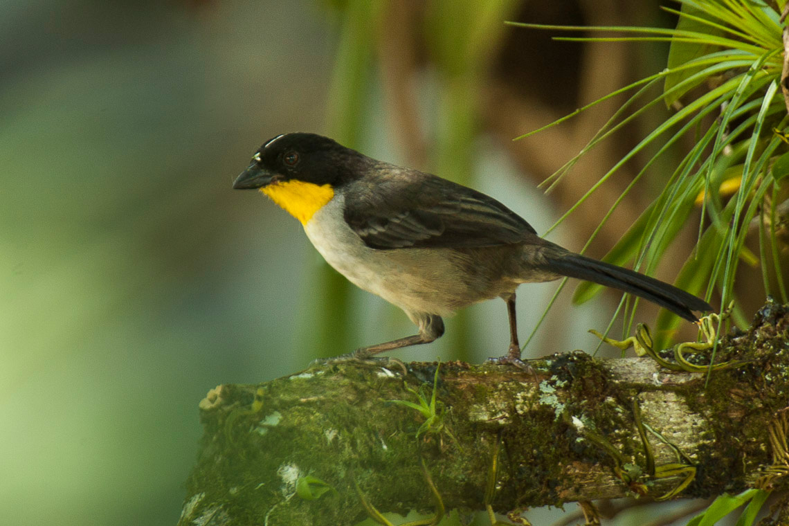 Yellow-throated Brush-Finch - Panama_H8O1866